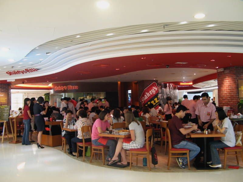 HK Shakey's Pizza Store